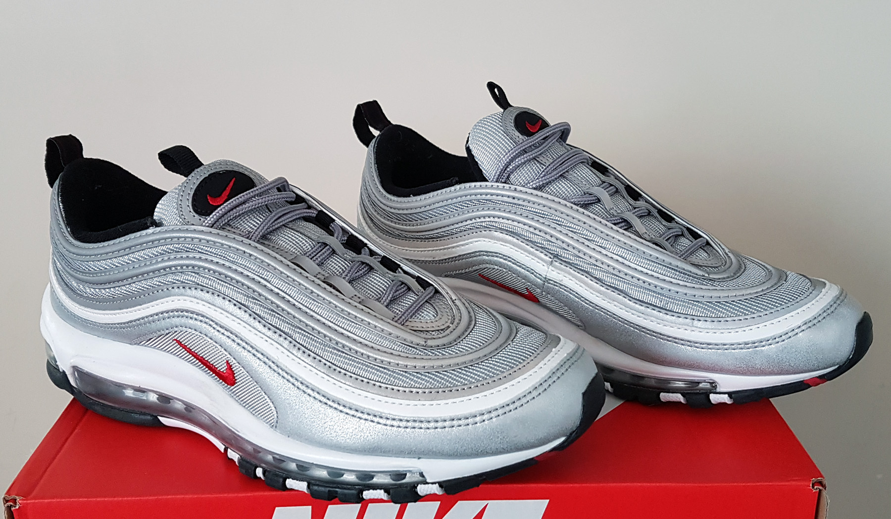 Nike Air Max 97 in the original "Silver Bullet" colorway